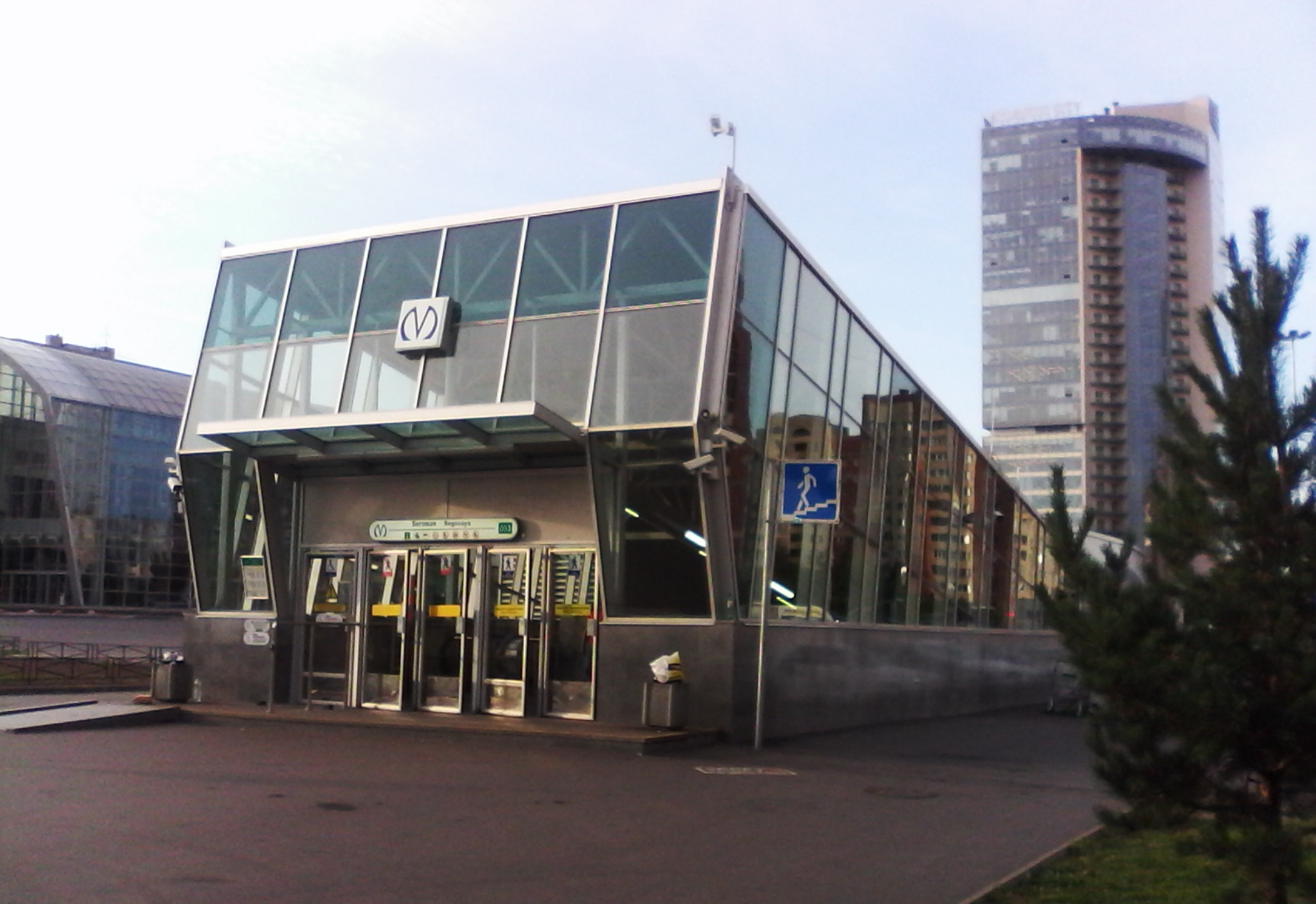 Begovaya station of Saint Petersburg Metro